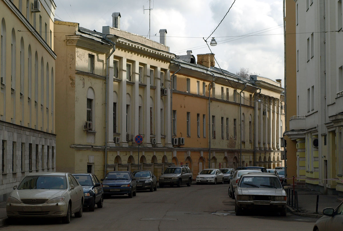 Chisty lane, Moscow.